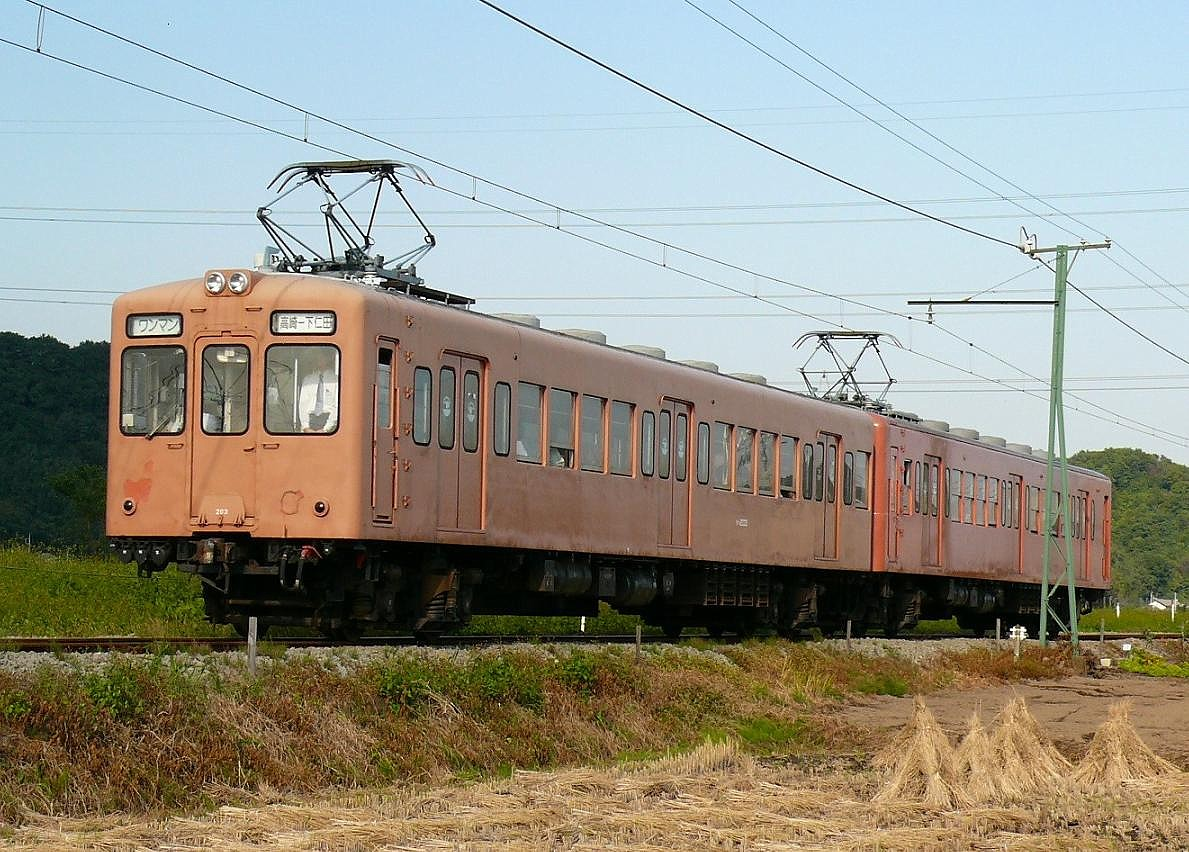 JoushinDentetu Railway Type 200(203) Train(Japan). Taking a picture from the public road between stations of Maniwa station and Yoshii. 上信電鉄200形電車画像の車両はデハ203。後部にはデハ205が連結されている。 馬庭～吉井の駅間にて 公道より撮影。